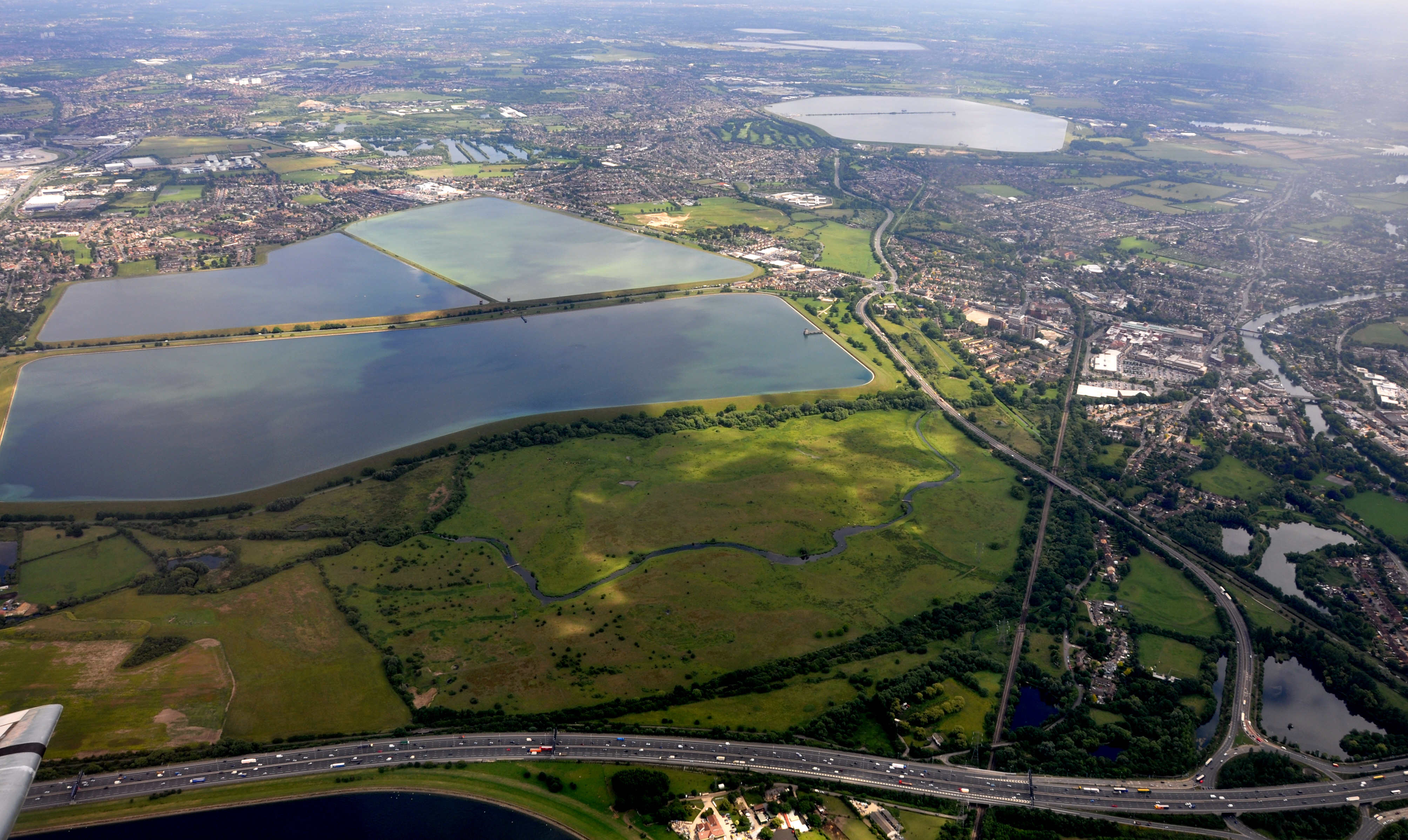 Aerial view of the King George VI Reservoir (nearest camera), Staines Reservoirs (just beyond), and Queen Mary Reservoir (upper right). In the foreground is the M25 motorway and, between it and the reservoir, Staines Moor.